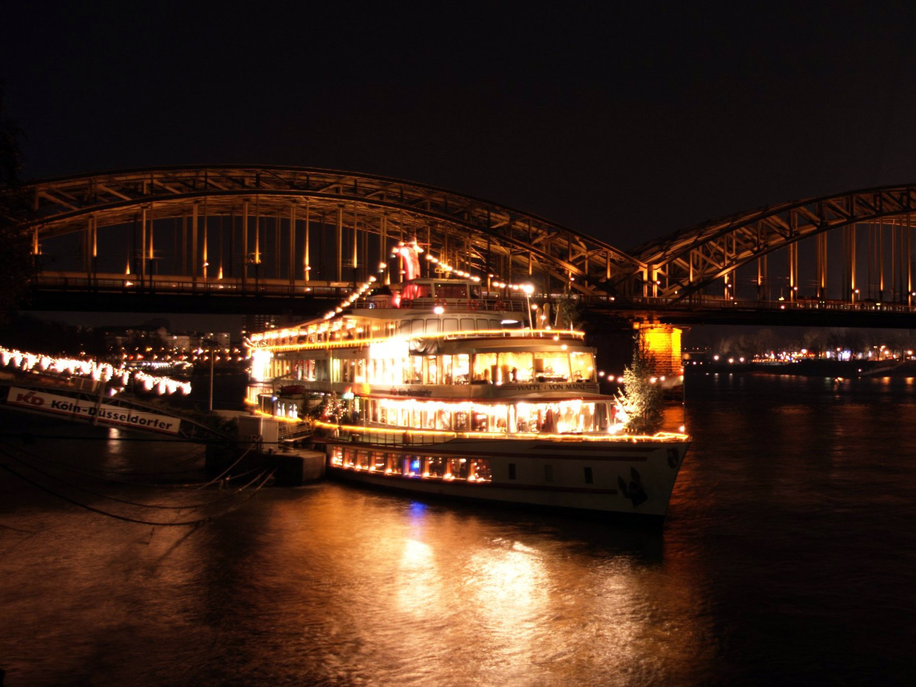 A floating Christmas market on the MS Wappen von Mainz on the Rhine river at Cologne, Germany.